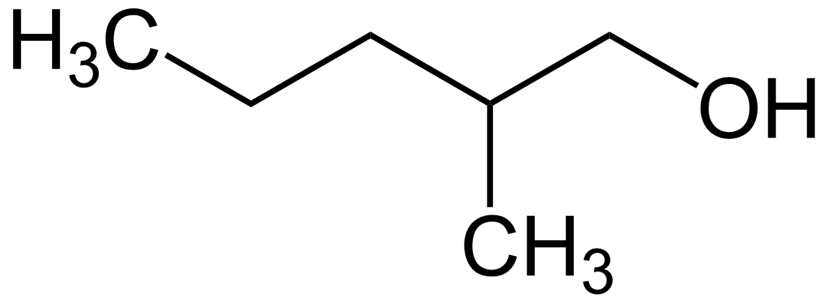 A structural drawing of a hexanol isomer.